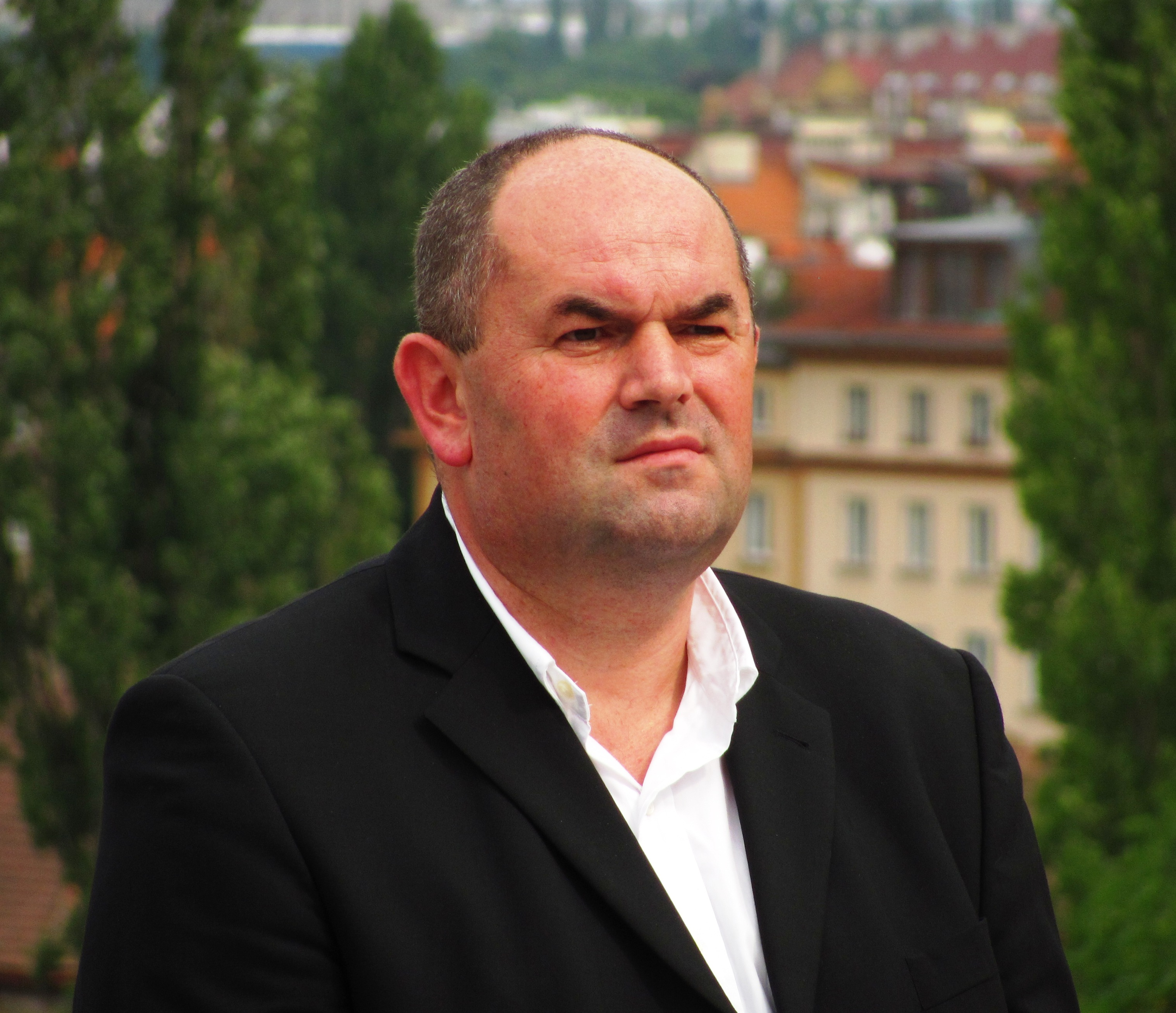 Miroslav Pelta, Chairman of the Football Association of the Czech Rep. (2012)